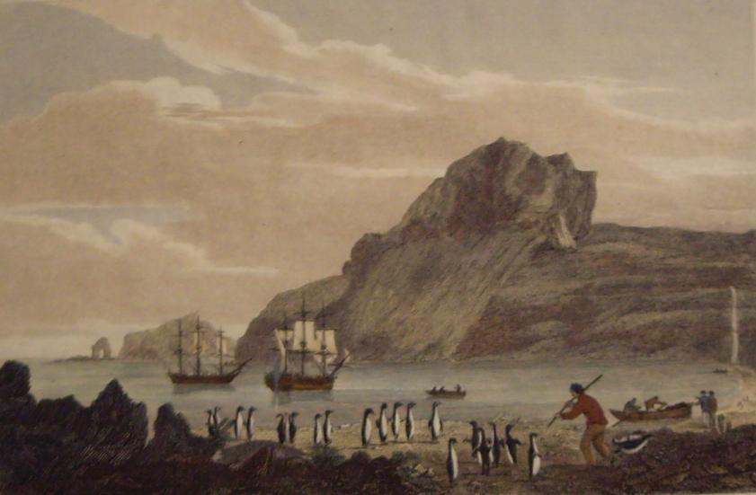 'Christmas Harbour, Kerguelens Land, 1811' copper engraving 200mm x 130mm, by George Cooke, dated 1811